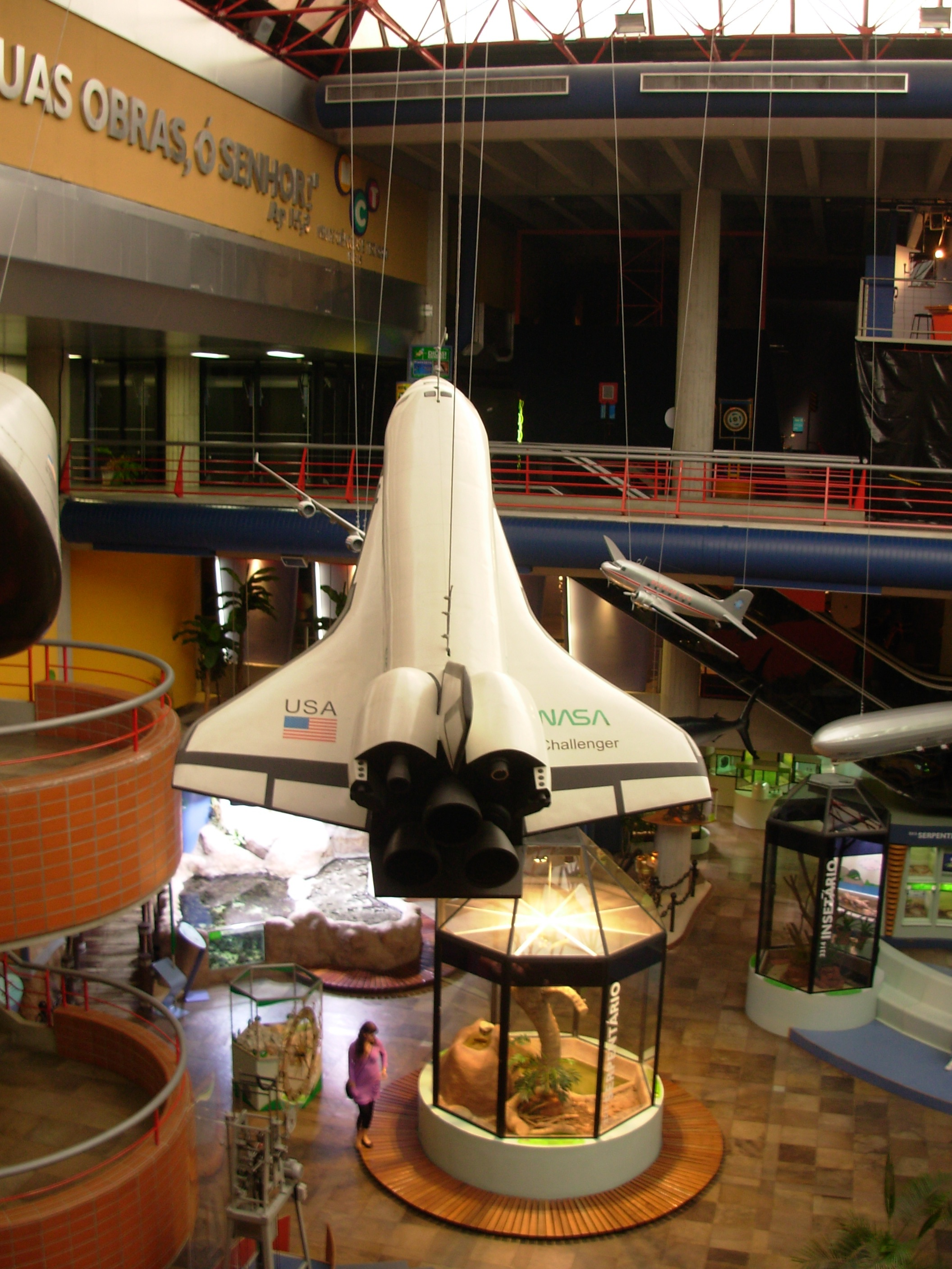 Challenger at Museu de Ciência e Tecnologia da PUC-RS